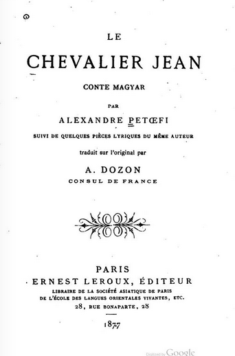 Petőfi's work